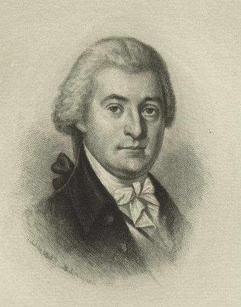 Portrait of American statesman William Blount (1749–1800), reproduced from an etching by Albert Rosenthal (1863–1939).